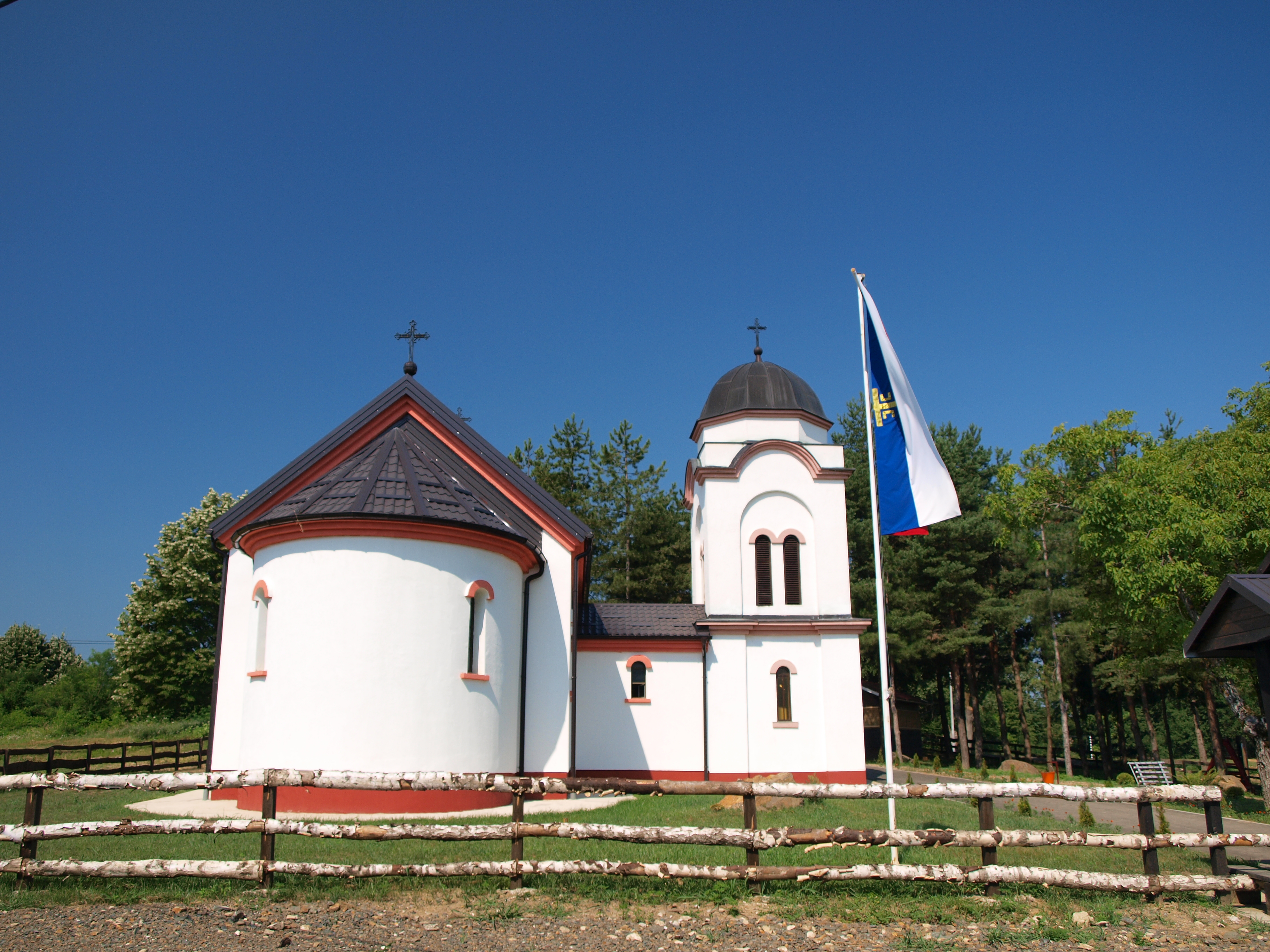 Serbian Orthodox church in village of Brekinja, near Kozarska Dubica, Republika Srpska.